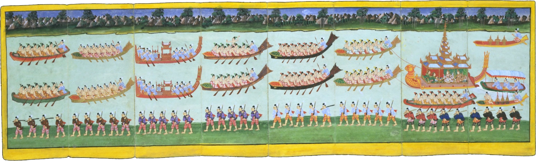 This folding manuscript or parabaik illustrates the King and Queen of Burma inspecting the military and taking part in other courtly activities. The ceremonies illustrated in the five folios here are: the towing of the Royal Barge; an elephant procession; a polo match; a performance with musicians and dancers; and a royal procession with the King and Queen.